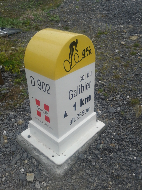 2015 Mountain pass cycling milestone - Galibier from Valloire